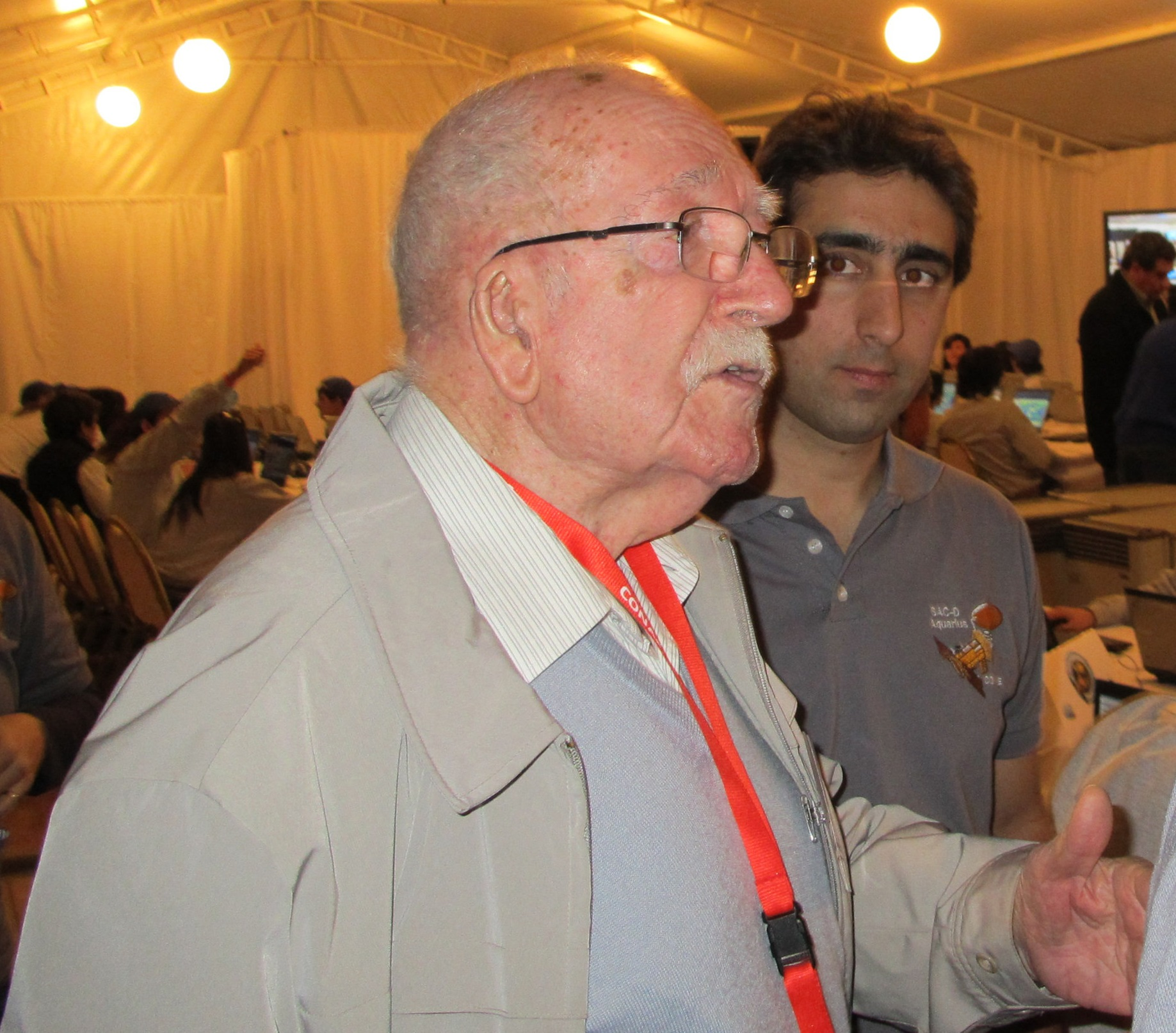 Dr. Alberto Maiztegui during an event organized by CONAE.